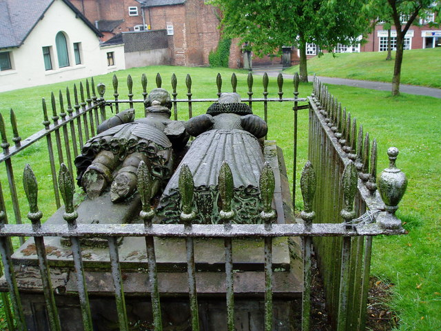 St Michael and St Wulfad's Church on Lichfield Street, Stone, Staffordshire. Monument of William II Crompton (d.1603) of Stone and of his wife Jane Aston, daughter of Sir Walter Aston of Tixall, Staffs. His father William I Crompton originally from Stafford, made his fortune in London and after the Dissolution of the Monasteries purchased former monastical property, including the priory of Stone. In 1562 William I Crompton was granted a coat of arms, but they were rejected by the heralds in 1583. William II Crompton's son was Thomas Crompton (c.1580–1645), MP for Staffordshire 1614, 1621 and 1628. (Source: CROMPTON, Thomas (c.1580-1645), of Stone and Little Fenton, Staffs. Published in The History of Parliament: the House of Commons 1604-1629, ed. Andrew Thrush and John P. Ferris, 2010[1]). The monument was originally in the chancel of the Church of Stone Priory, demolished in 1750s and replaced on the same site by the present church of St Michael and St Wulfad. It remains now in the churchyard, decaying from the weather.